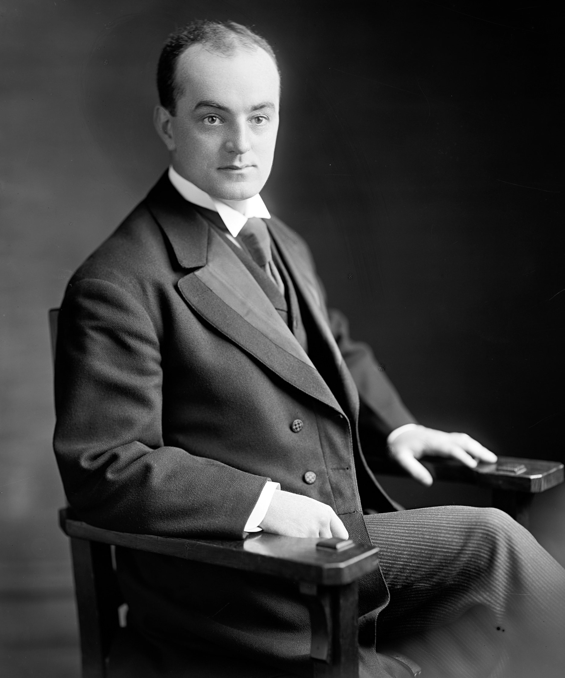 James H. Higgins, Governor of Rhode Island